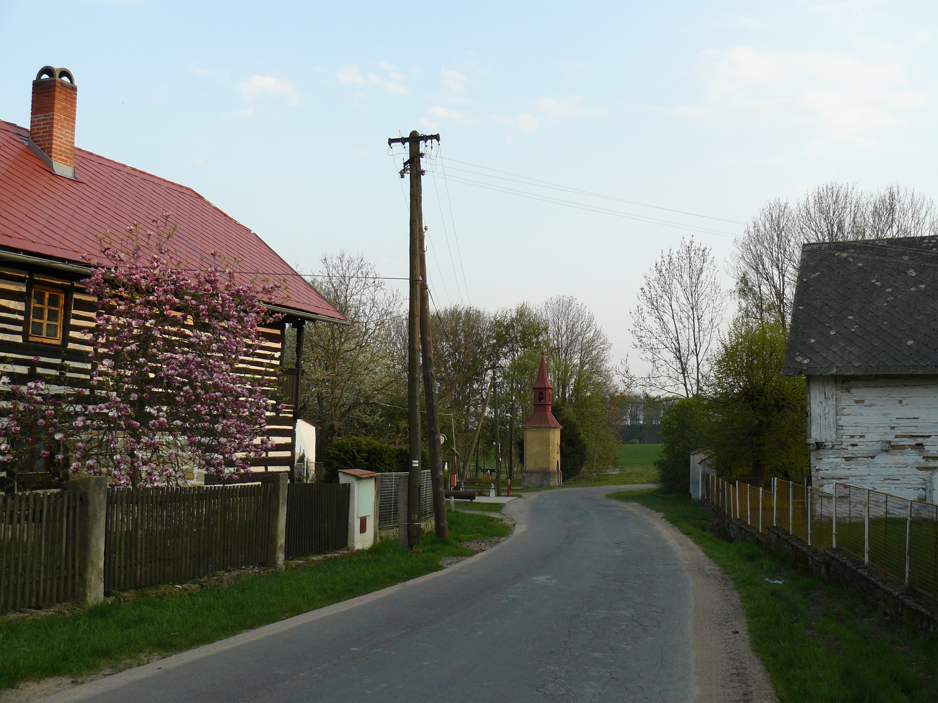 Mrkvojedy - village in Czech Republic